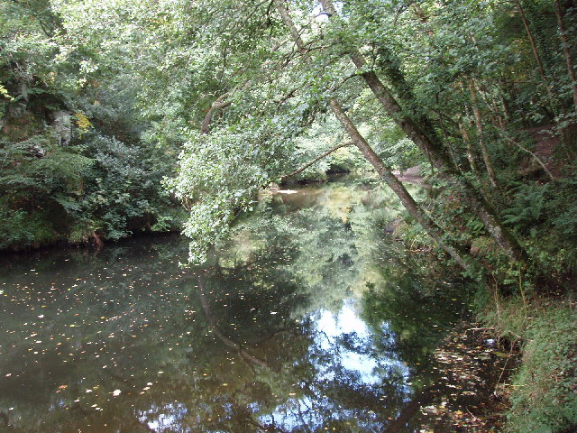 Camel river at Dunmere Weir. Dunmere Weir is designated a Site of Special Scientific Interest (SSSI) for its special wildlife. Salmon leap here. and look at the Camel Trail Guide, then choose "Follow the River". The photo shows the pool above the weir.